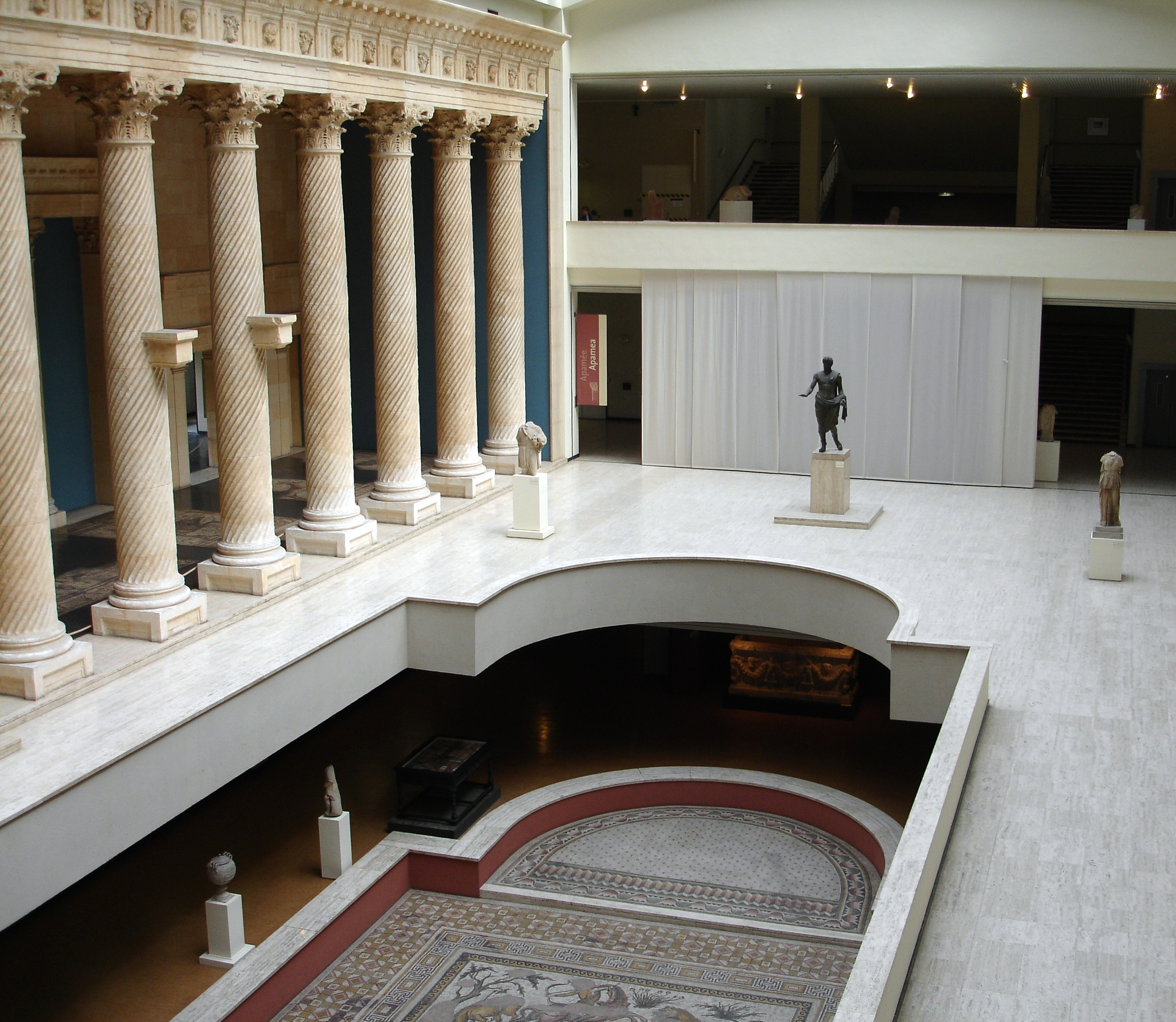 own work